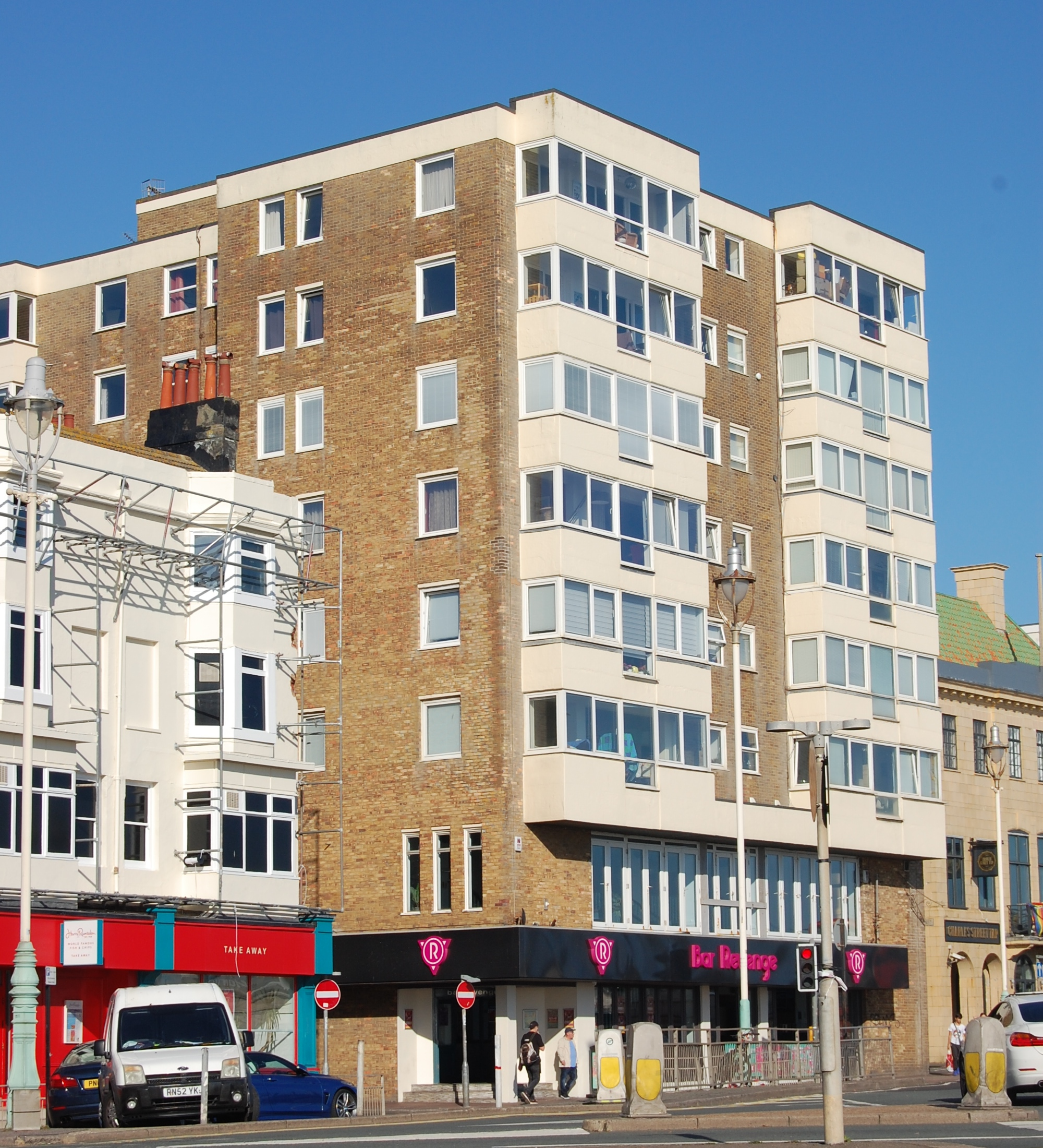 Bar Revenge and The Albemarle flats, Marine Parade, Brighton, City of Brighton and Hove, England.